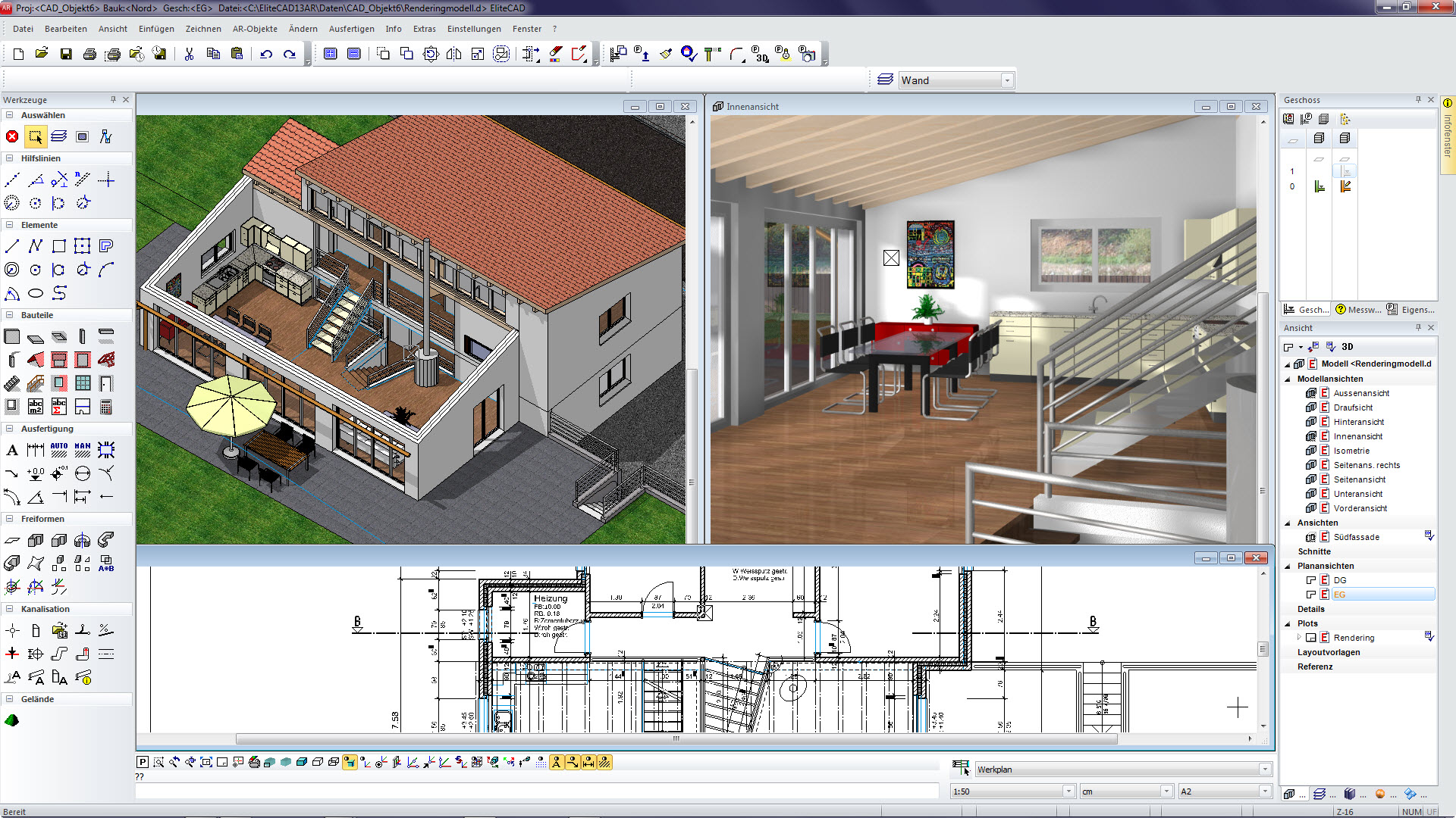 Surface EliteCAD